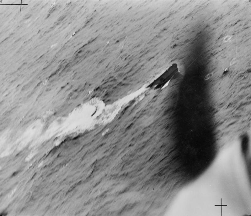 Royal Air Force 1939-1945- Coastal Command On 17 July 1942 U-751 was attacked and crippled in the Bay of Biscay by a Whitley of No 502 Squadron. This photograph was taken from the Whitley and shows the U-boat disabled, unable to dive and circling, apparently out of control. It was later attacked and sunk by a Lancaster of No 61 Squadron, seconded to Coastal Command.